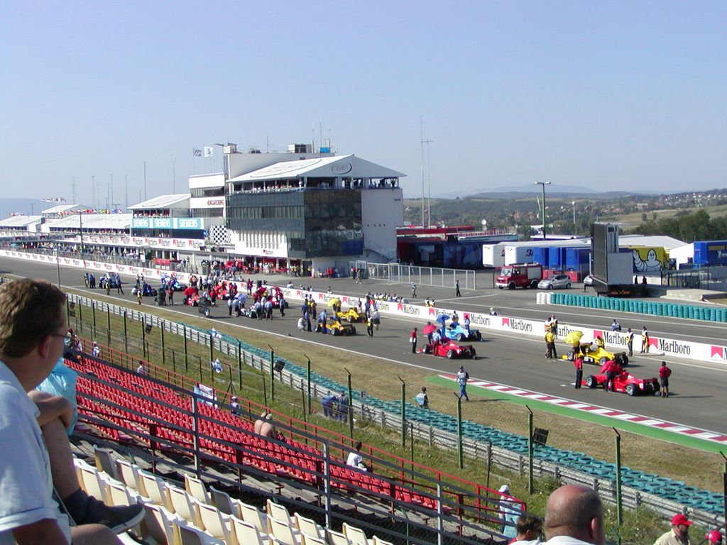 Support race start grid at the 2003 Hungarian Grand Prix.